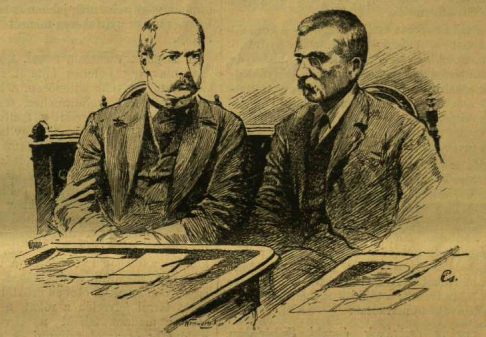 Gusztáv Kálnoky and Béni Kállay.